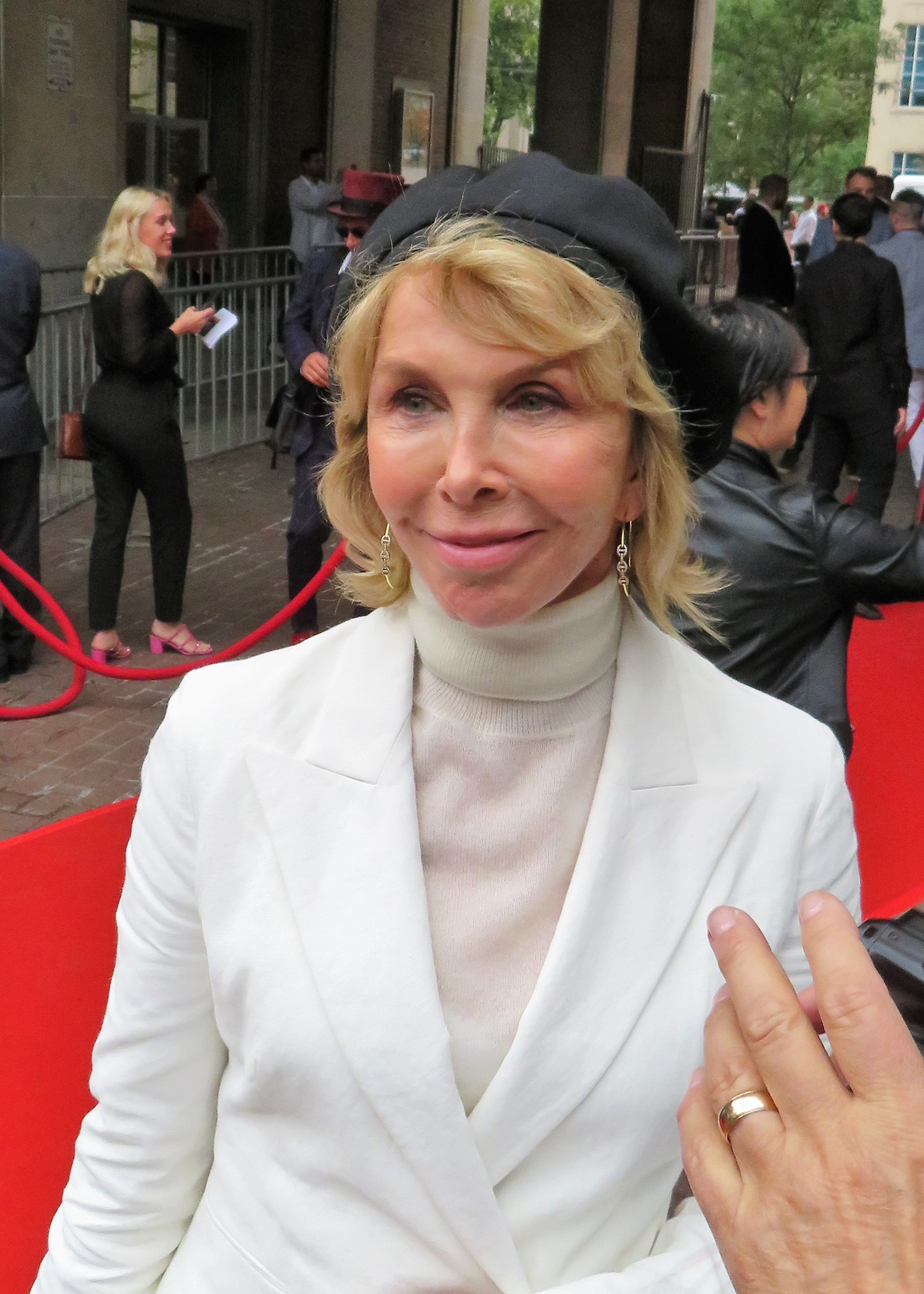 Trudie Styler at the premiere of Human Capital, 2019 Toronto Film Festival